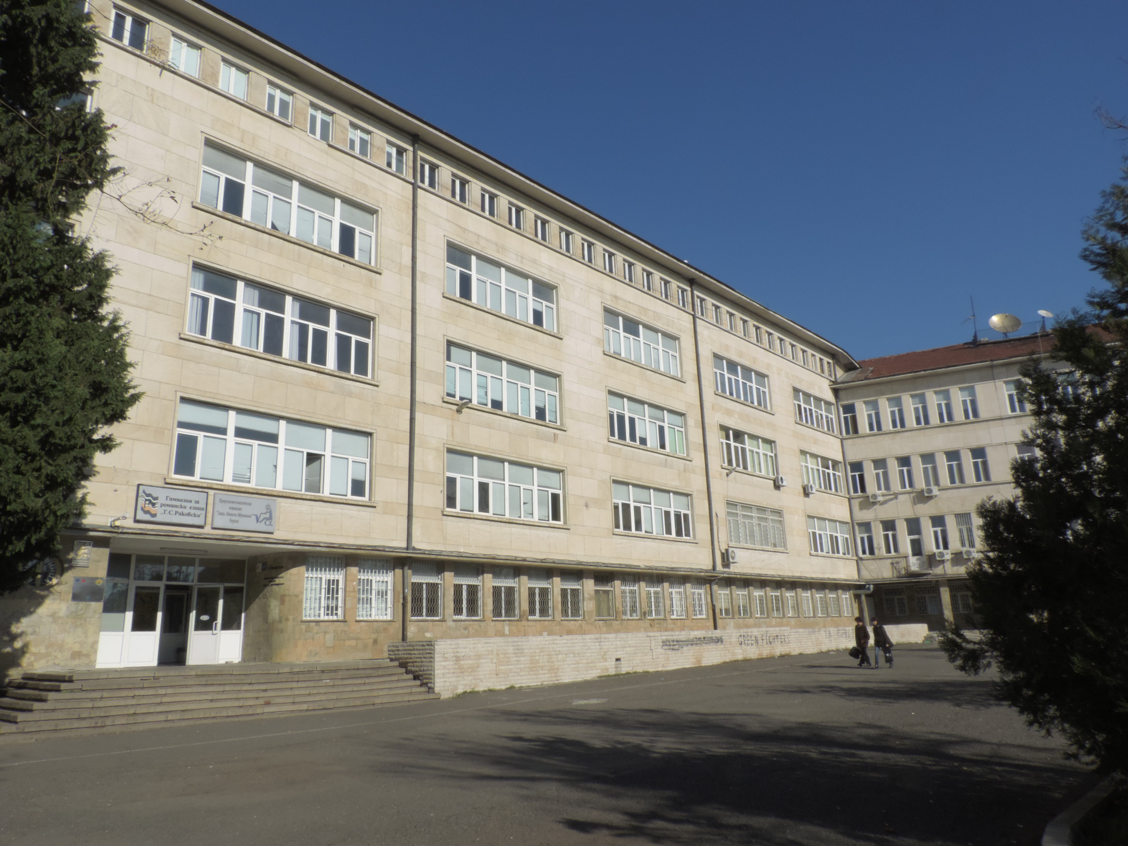 Roman Languages Gymnasium "G. S. Rakovski" and Mathematical Gymnasium "Acad. Nikola Obreshkov" in Burgas, Bulgaria